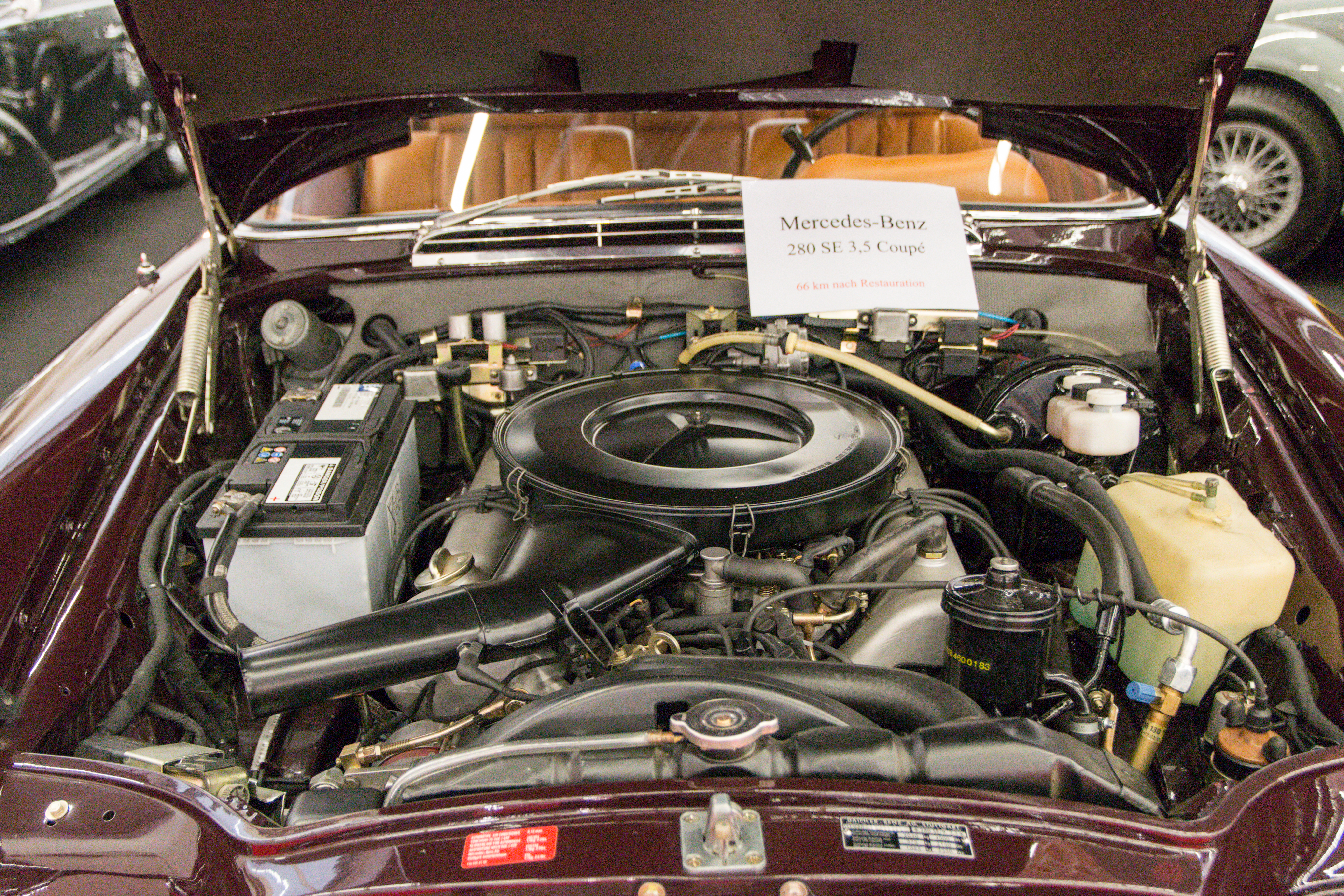 Mercedes-Benz M 116.980